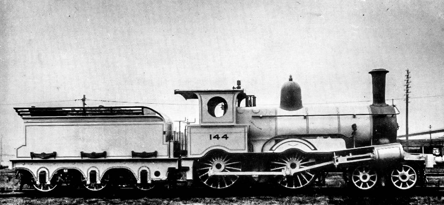 NSWGR Class C.80 Class Locomotive after reboiler and Belpaire firebox fitted